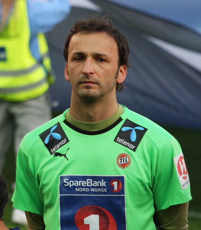 Sead Ramovic, Norwegian player for Tromsø IL